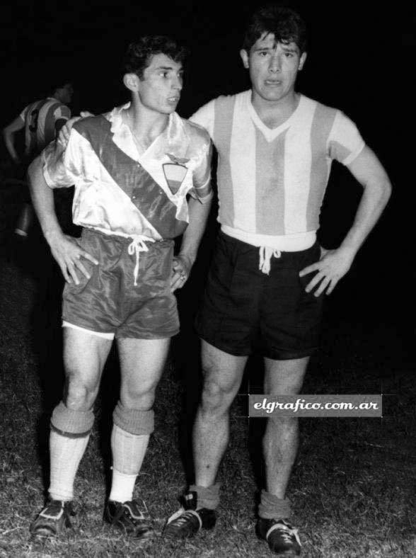 Player of Ecuador, Jorge Larraz, and Argentine Enrique O. Sívori before the match at the South American championship